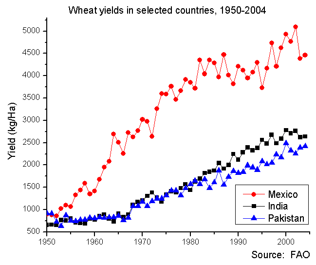 Source data: (Food and Agriculture Organization)